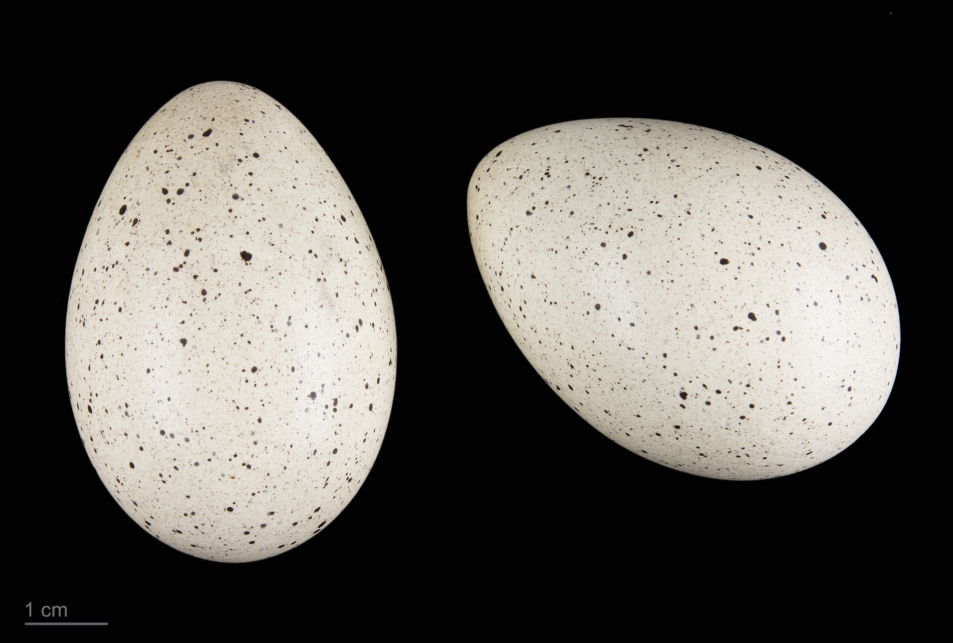 Eggs of Eurasian coot Two specimens of the same spawn ; collection of Jacques Perrin de Brichambaut.